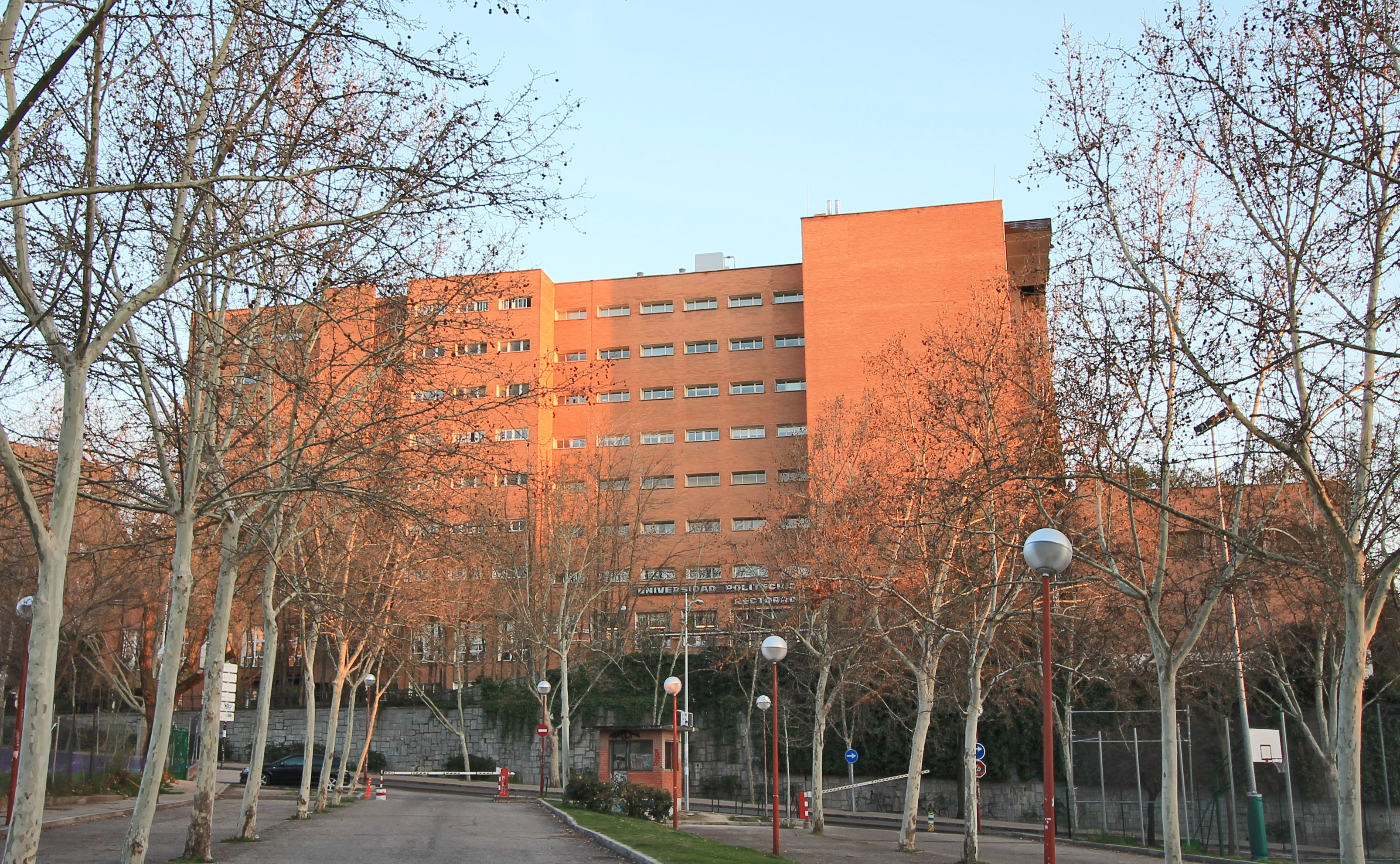 Façade of the rectorate of the Technical University of Madrid (Spain).